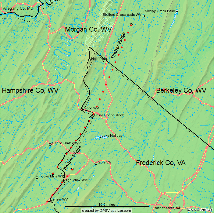 The ridge is marked by dotted red lines on a relief map. Their locations were discerned from USGS topographic maps. Also shown are towns, landmarks, state boundaries, and counties.